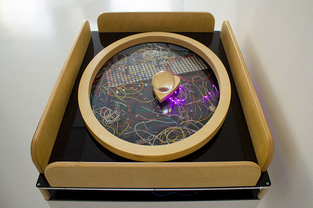 Interactive sound sculpture by Margaret Noble.